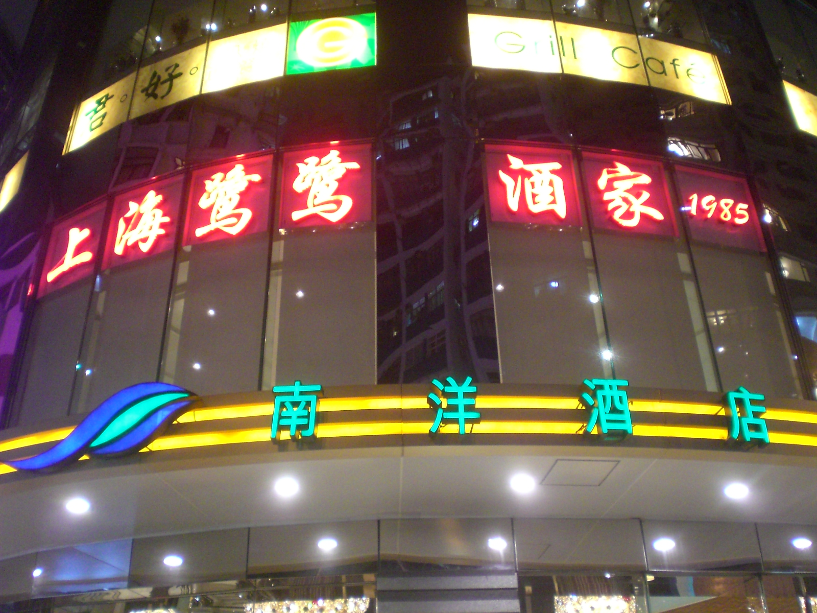 灣仔南洋酒店 [1]